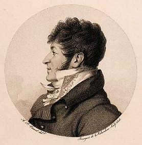 French harpsichordist and composer Charles-Henri Plantade (1764-1839) by Antoine-Achille Bourgeois de La Richardière (1777-18??) after Antoine-Paul Vincent (17??-18??).